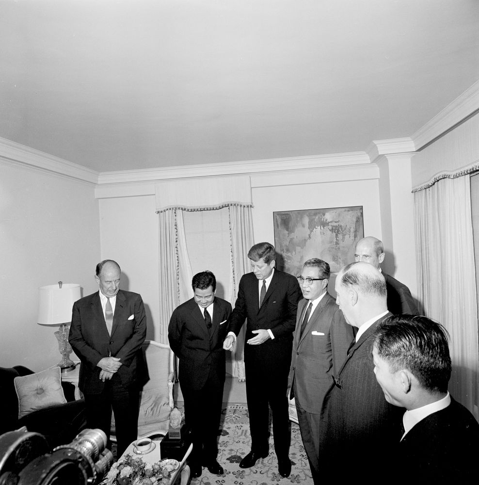 President John F. Kennedy gestures toward a small statue presented by Prince Norodom Sihanouk of Cambodia in the President’s Suite at the Carlyle Hotel, New York City, New York. (Left to right:) United States Ambassador to the United Nations Adlai Stevenson; Prince Sihanouk; President Kennedy; Foreign Affairs Minister for Cambodia Nhiek Tioulong; United States Ambassador to Cambodia William Trimble (partially hidden); John Steeves, Deputy Assistant Secretary of State for Far Eastern Affairs (back to camera); Ambassador of Cambodia Nong Kimny.